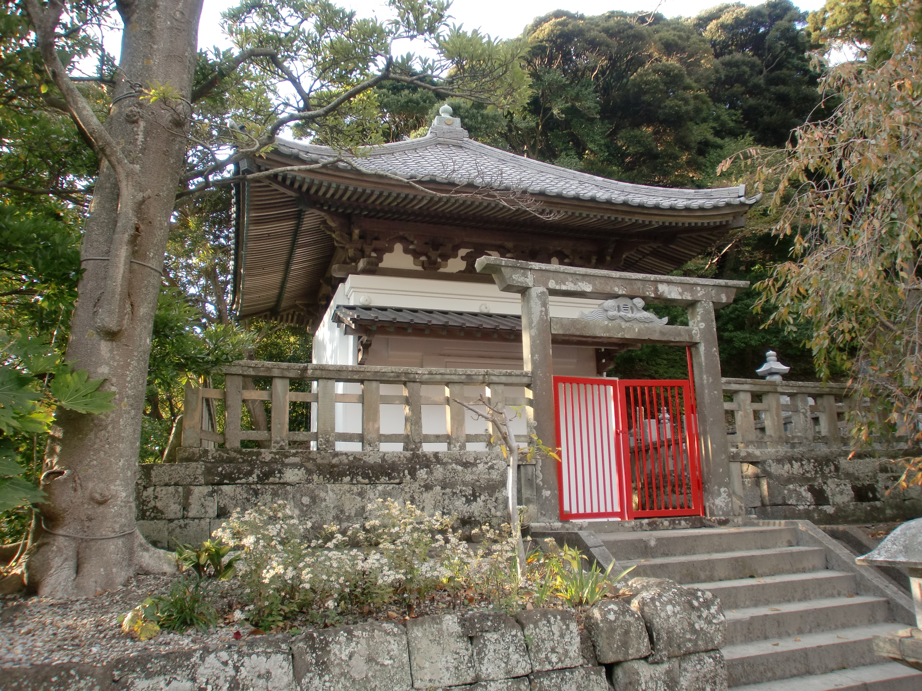 Treasure storehouse of the Myohon-ji temple in Kyonan Town, Chiba Prefecture, Japan